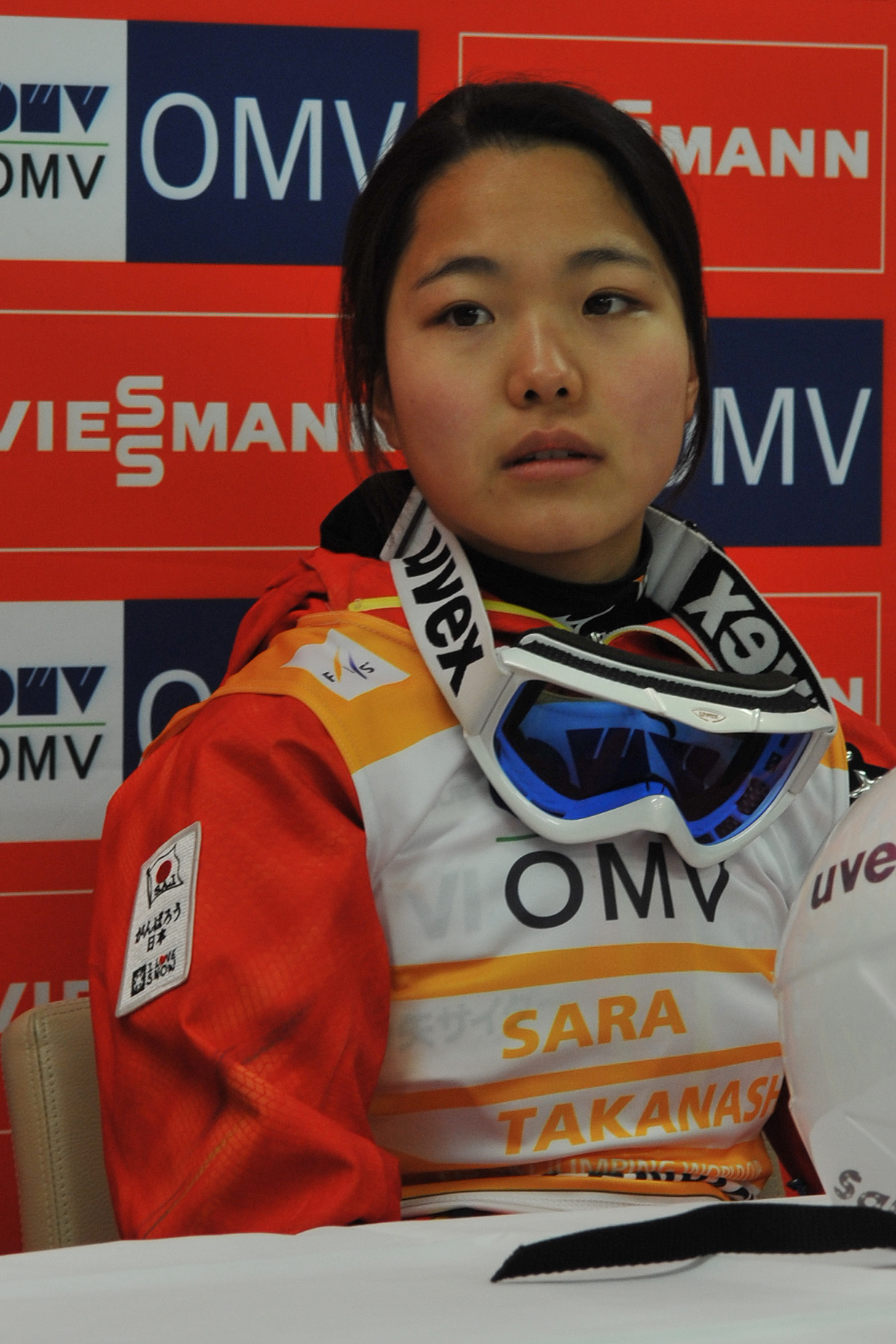 FIS Ski Jumping World Cup Ladies 14th World Cup Competition Normal Hill Individual Hinzenbach (AUT) Sun 2 Feb 2014: Sara Takanashi